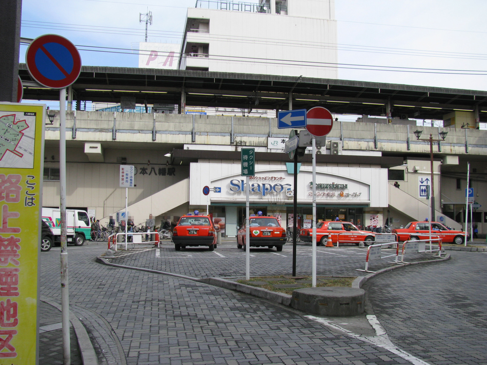 Motoyawata station on JR Sobu Main Line